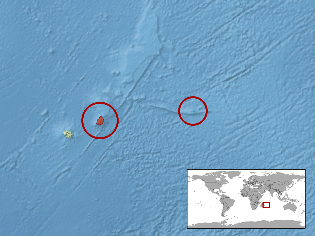 geographic distribution of Phelsuma cepediana (Native: Mauritius (Mauritius (main island), Rodrigues - Introduced))